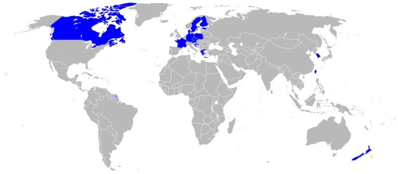 A map of states currently governed by member (blue), dependencies (light blue), or observer parties of the International Democrat Union.